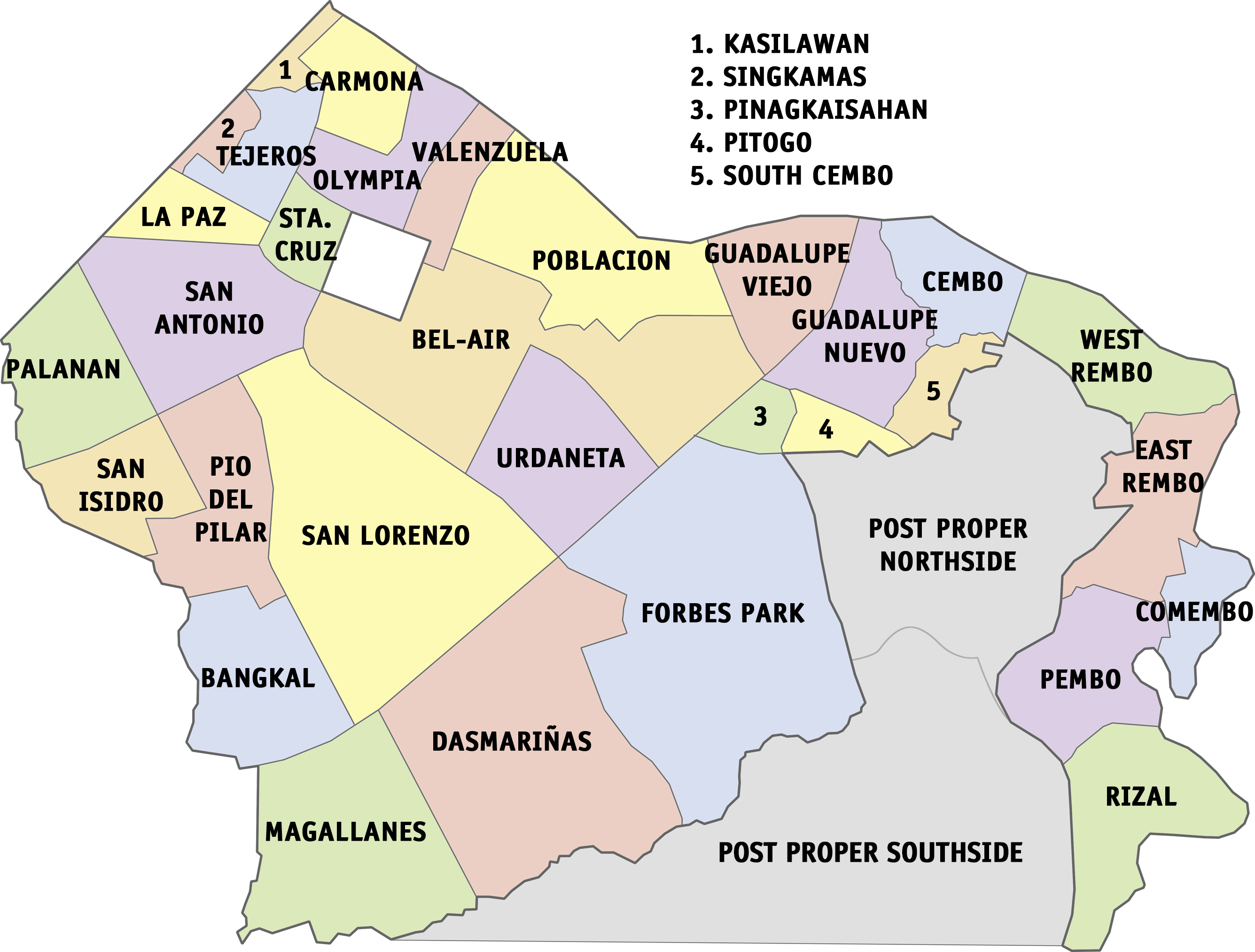 Map of Makati with barangays